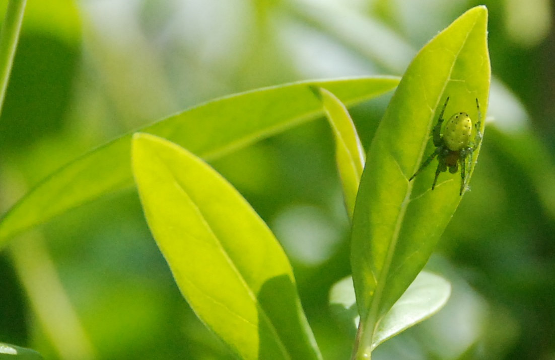 Araniella sp. on Ligustrum vulgare